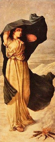 Invierno, parte de la colección del Palacio de Miraflores en Caracas.